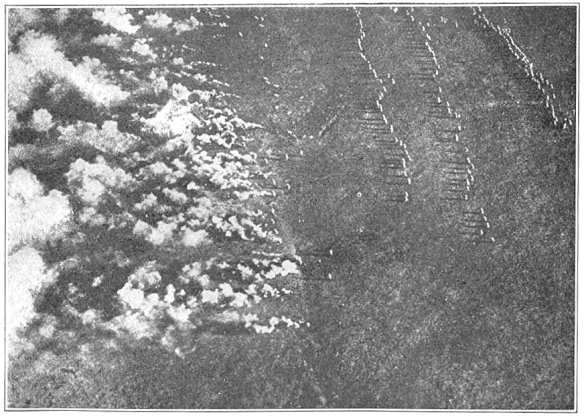 This image shows a World War I German gas attack on the eastern front, and was photographed from the air by a Russian airman. The image was titled, "German Frightfulness from the Air"